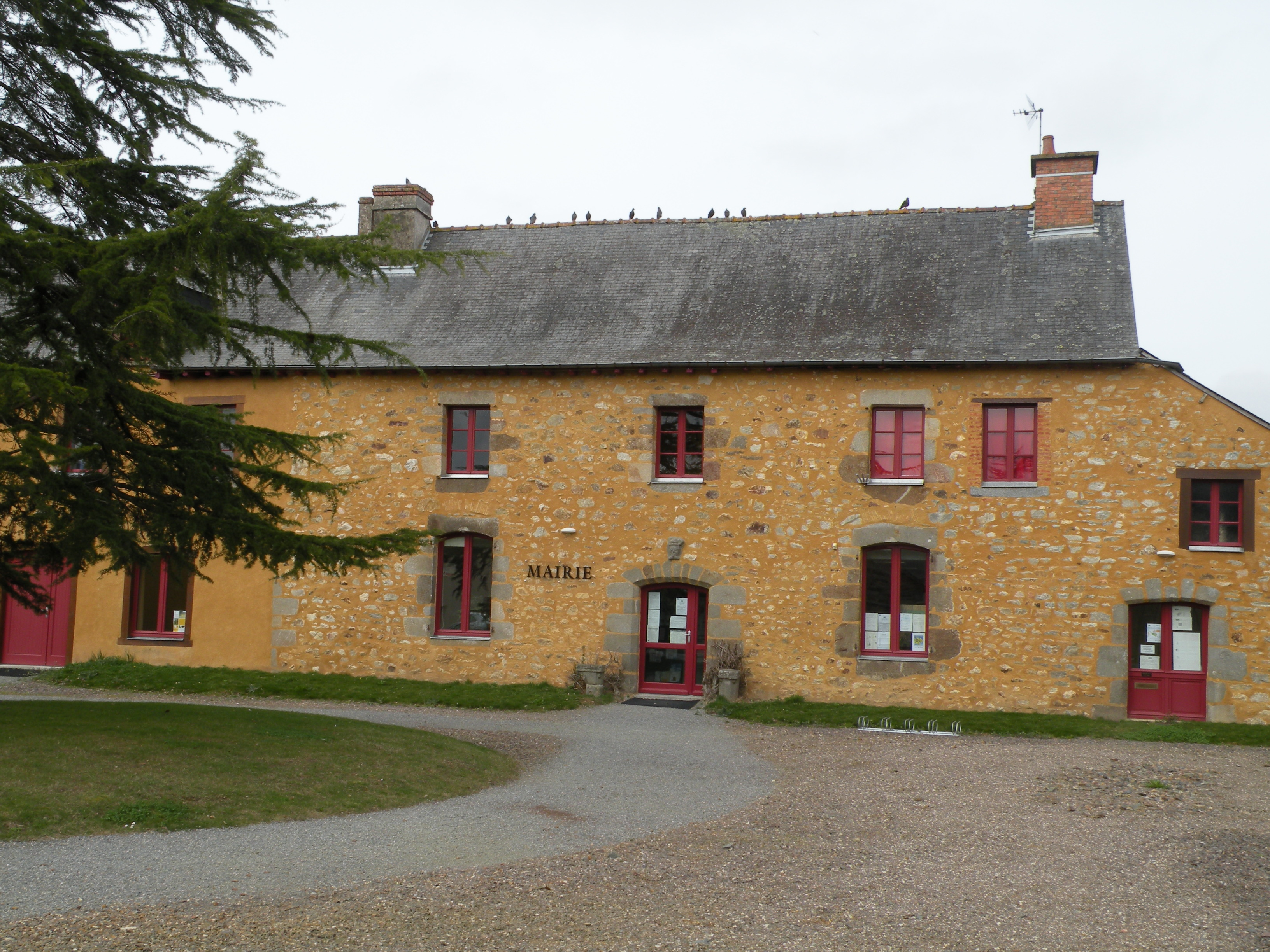 Town hall of Vignoc.